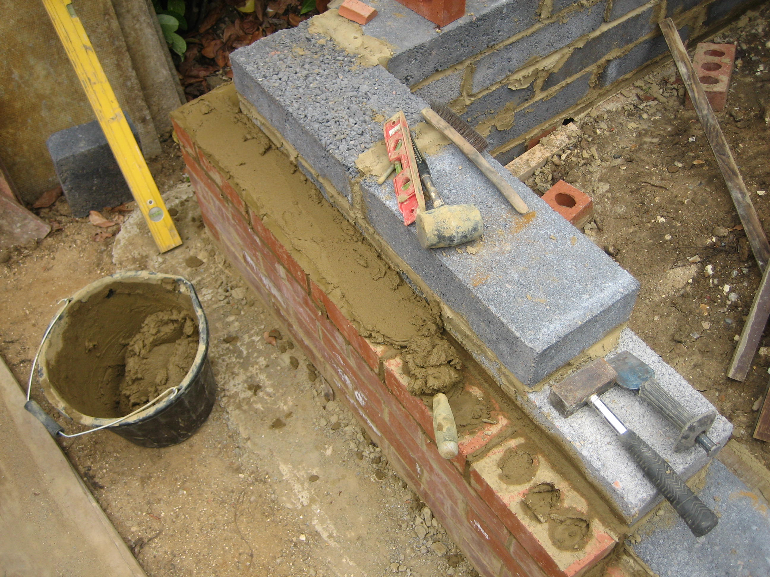 brick and block laying